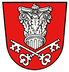 Coat of arms of the Town Wessobrunn